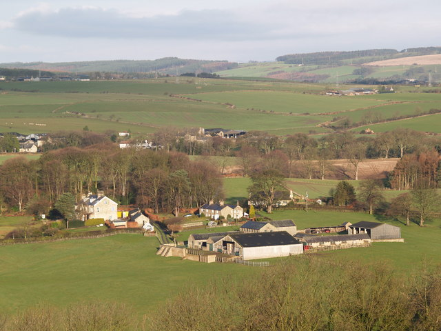 Hindley near Stocksfield The hamlet of Hindley is in the foreground and just above is another hamlet called Brookside both residing in the Parish of Broomley and Stocksfield.